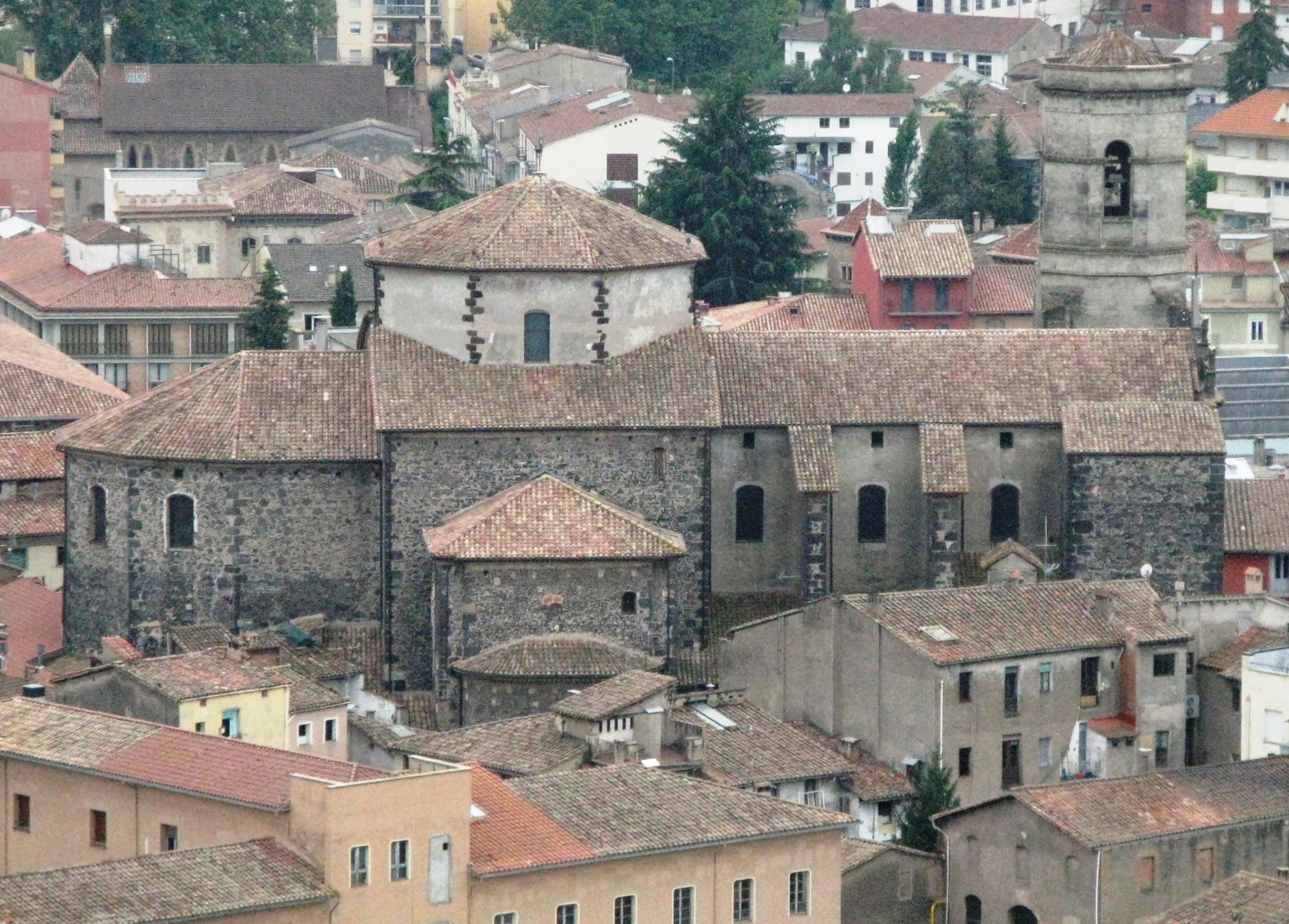 Olot - Main Church Sant Esteve, view from the volcano Montsacopa